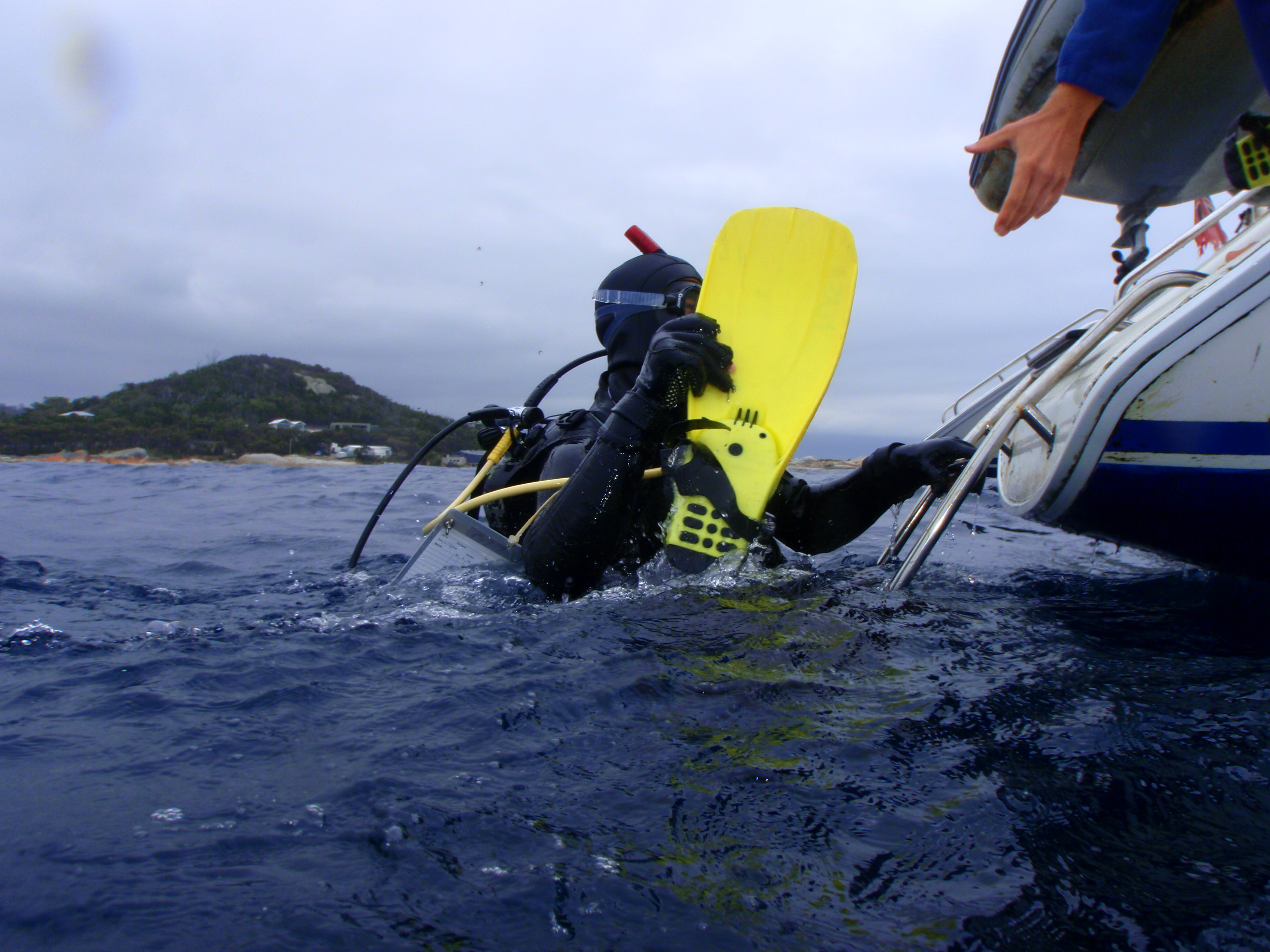 Diver exiting water by stern platform ladder on RLS survey vessel Reef Dragon at Bicheno, Tasmania